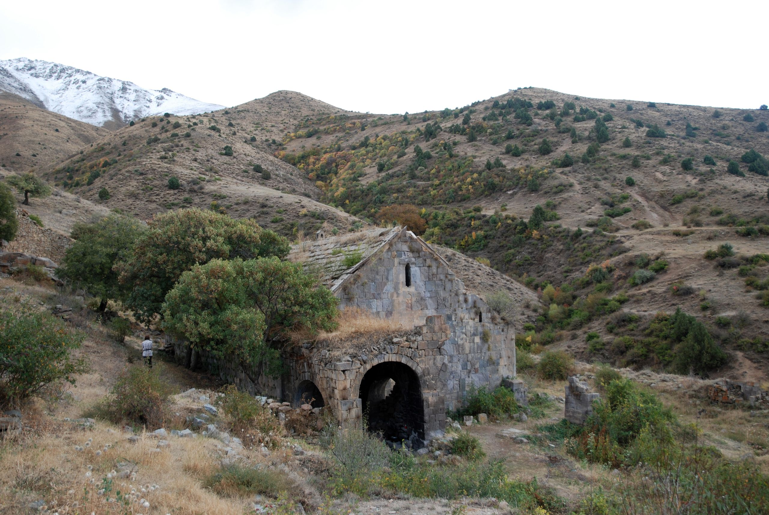 Shativank, from northwest